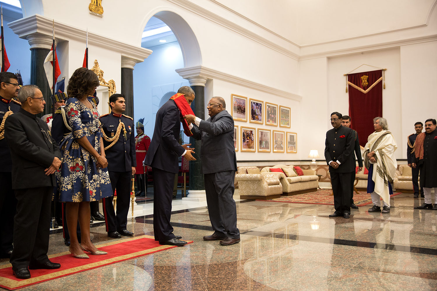 President Barack Obama is presented with a scarf by Rayapati Sambasiva Rao, Member of Indian Parliament, during the State Dinner receiving line at Rashtrapati Bhawan in New Delhi, India, Jan. 25, 2015. (Official White House Photo by Pete Souza)